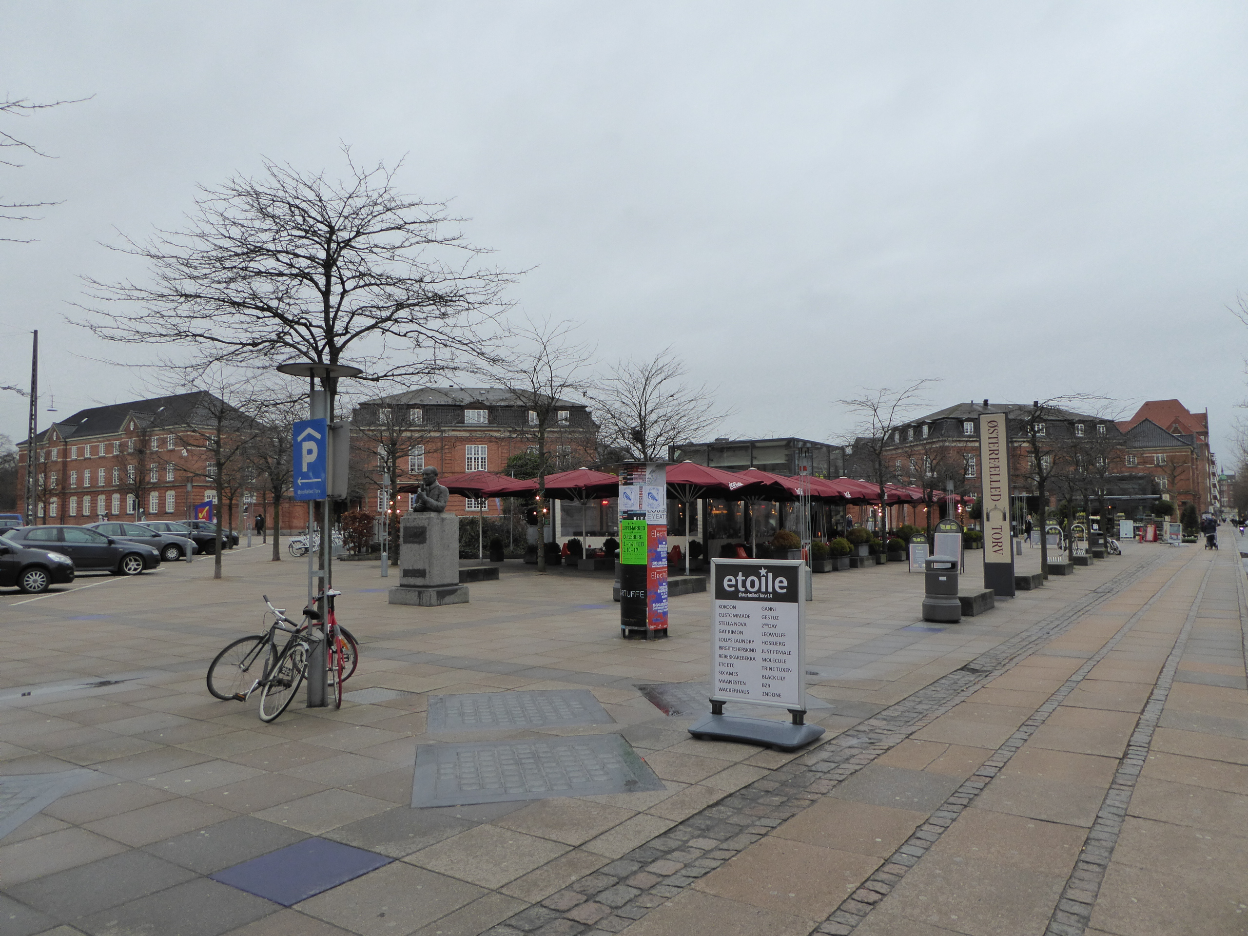 The square Gunnar Nu Hansens Plads in Østerbro in Copenhagen.